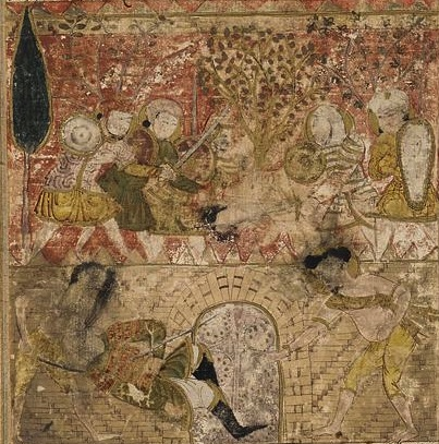 Folio from a Tarikhnama (Book of history) by Balami